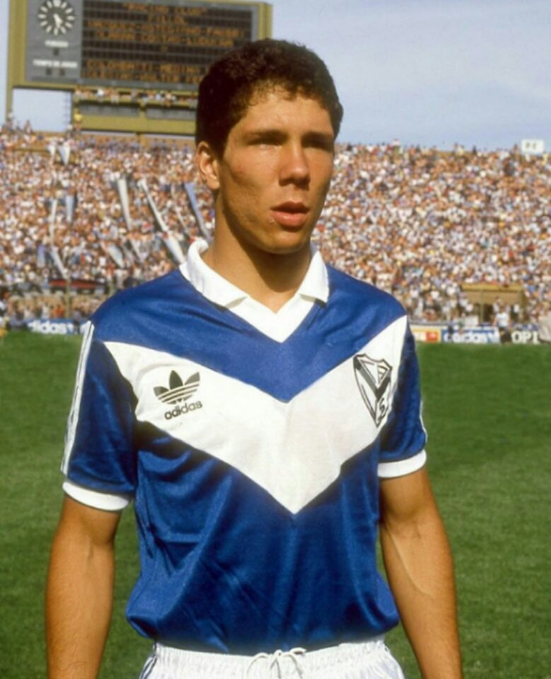 Diego Simeone during his first year of profesional career, playing for Velez Sarsfield.